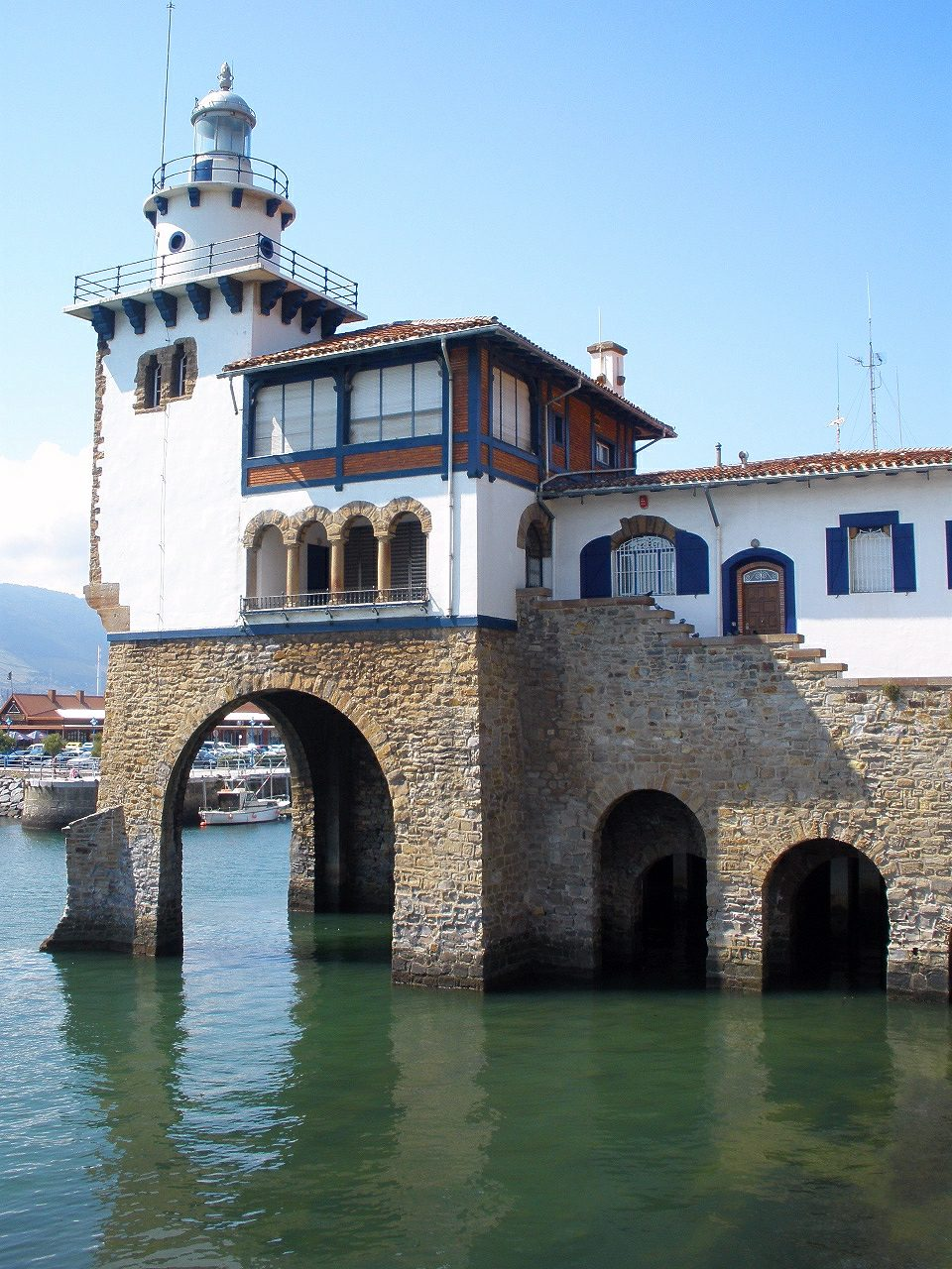 Casa de Náufragos y Faro de Arriluze (Muelle de Arriluze), en Neguri, Gecho (Vizcaya)